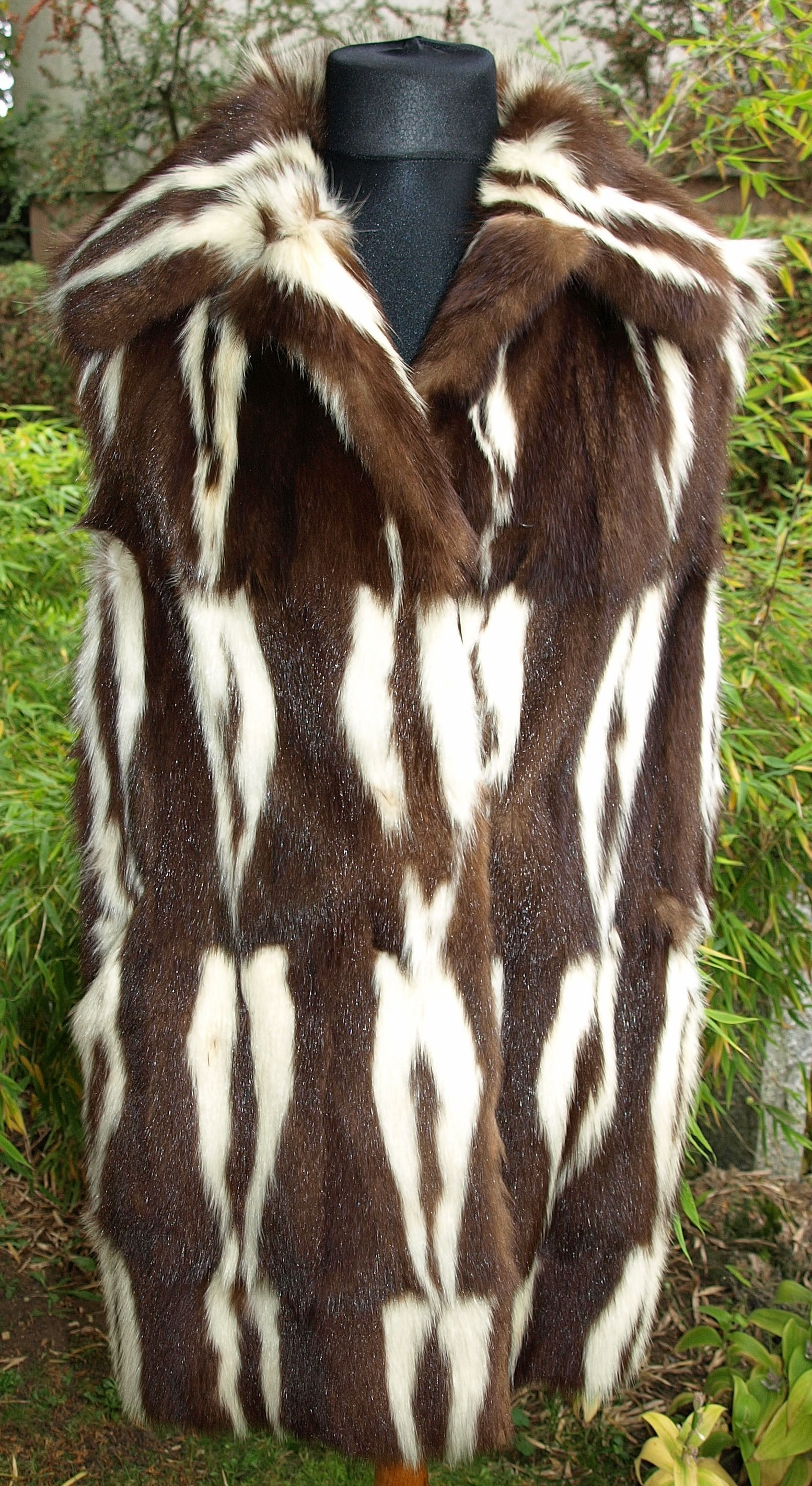 Chasuble of skunk fur skins